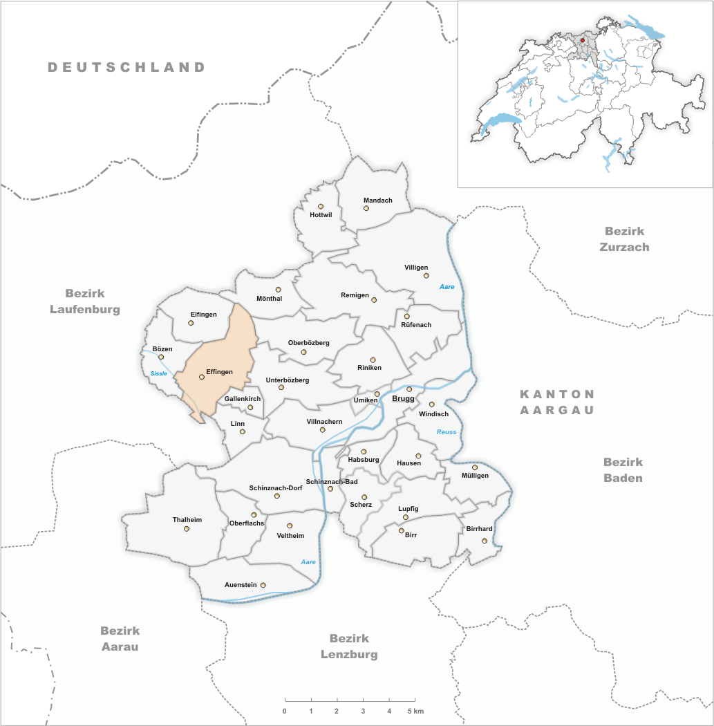 Municipality Effingen